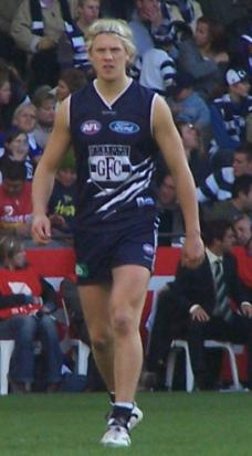 Geelong player, Nathan Ablett, wearing the clash guernsey against the Kangaroo's - Round 20, 2007.